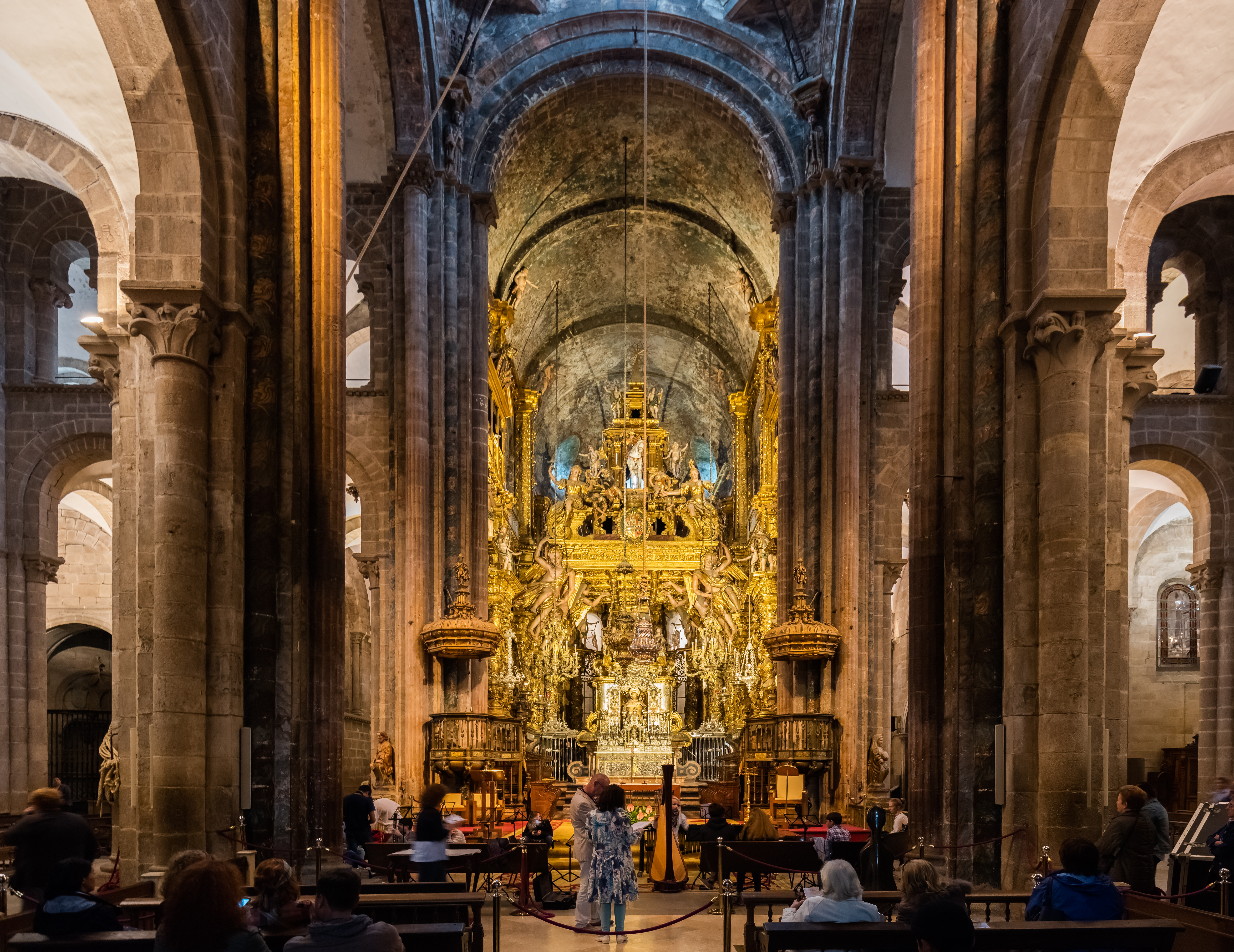 Cathedral, Santiago de Compostela, Spain